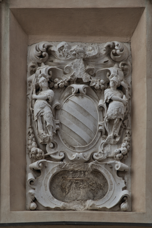 Coat of arm of Zeno family on the town hall of Crema (Italy)